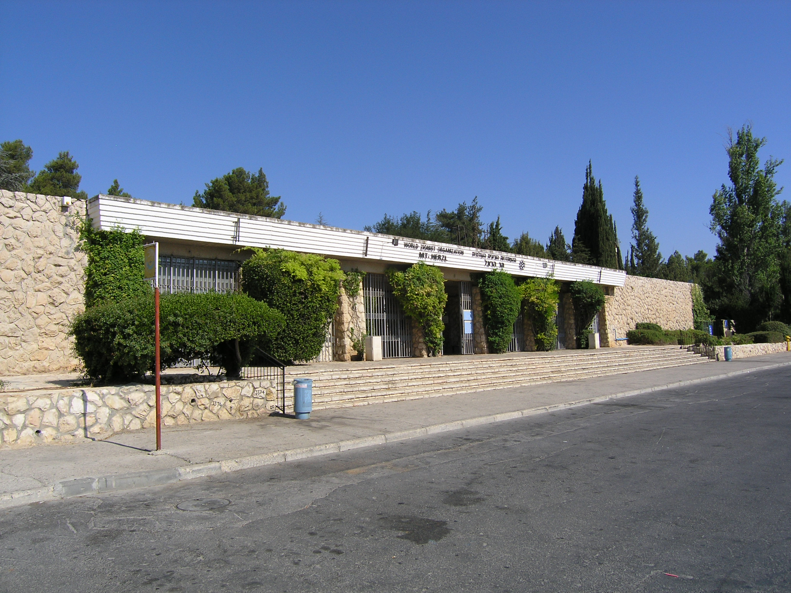 Mount Herzl entrance, Jerusalem (Israel)